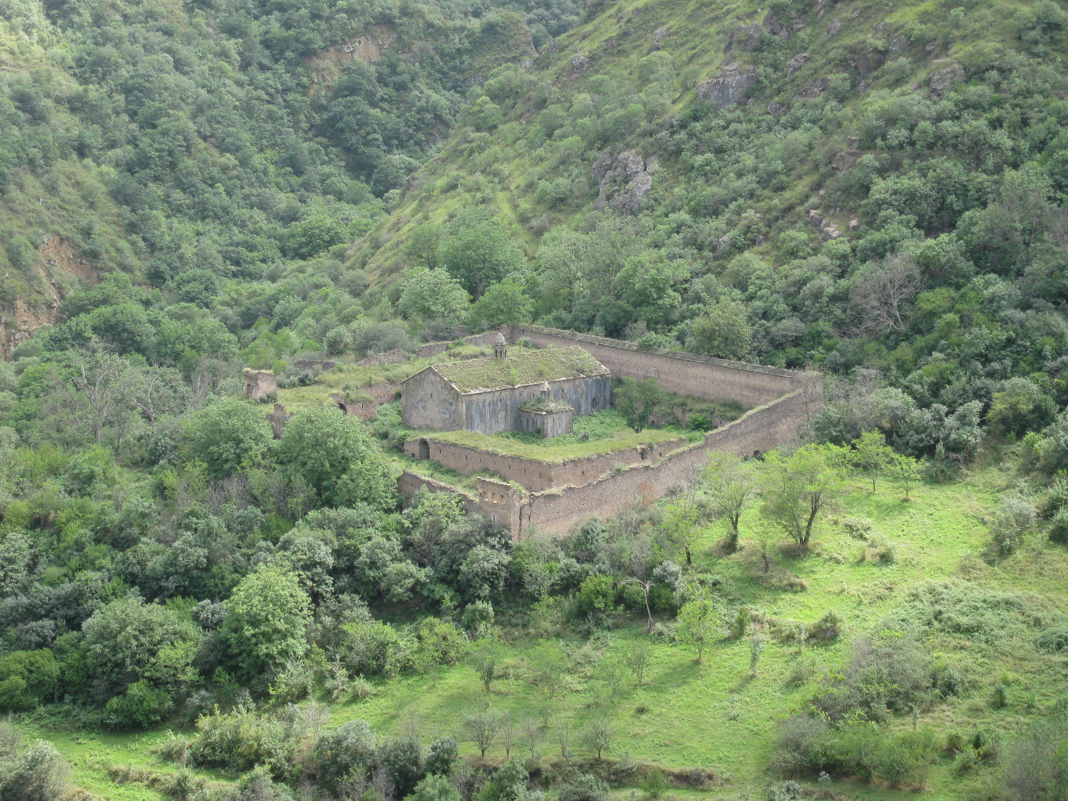 Tatevi Anapat 97/8